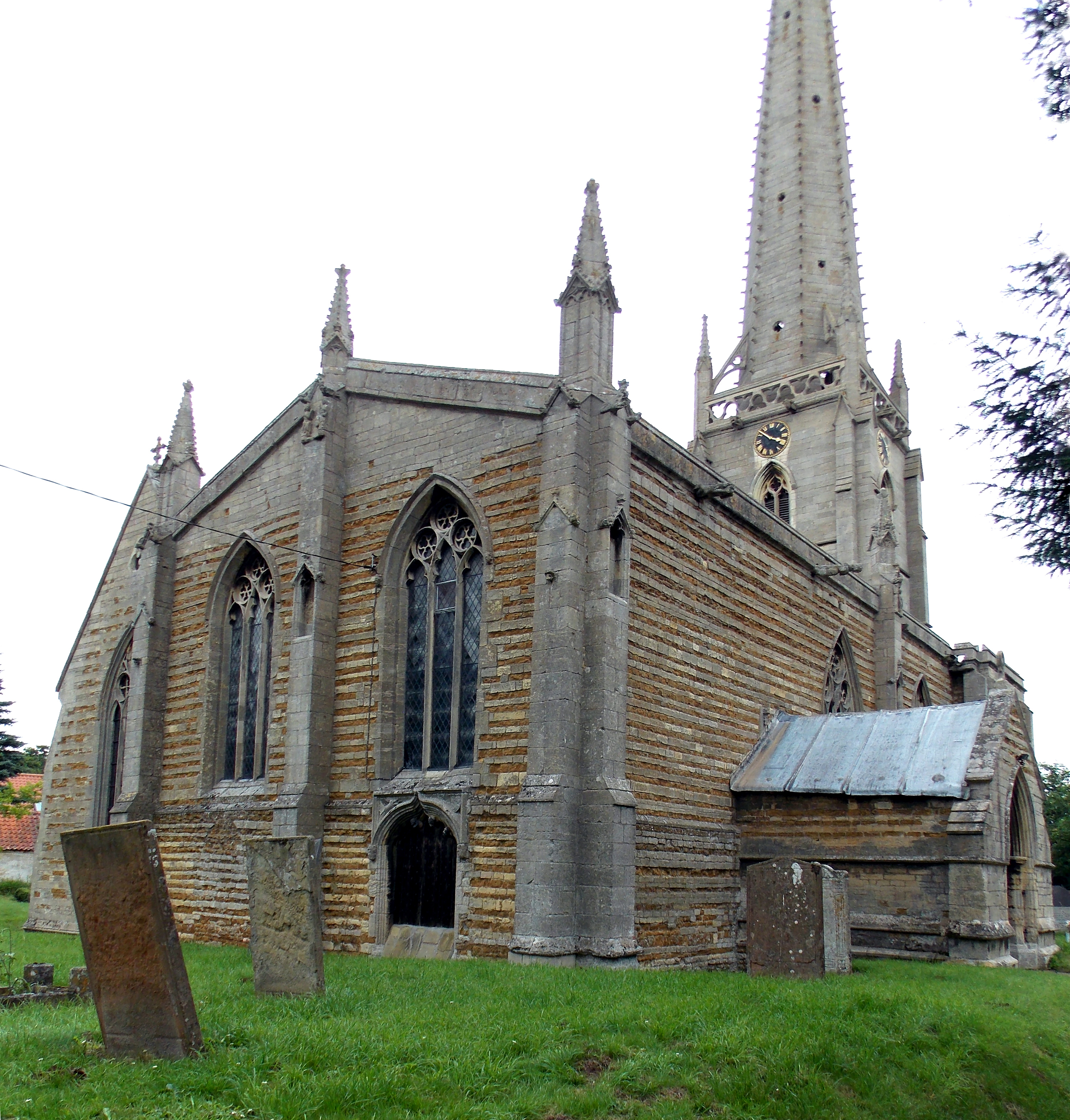 St Vincent's parish church, Caythorpe, Lincolnshire, seen from the southwest